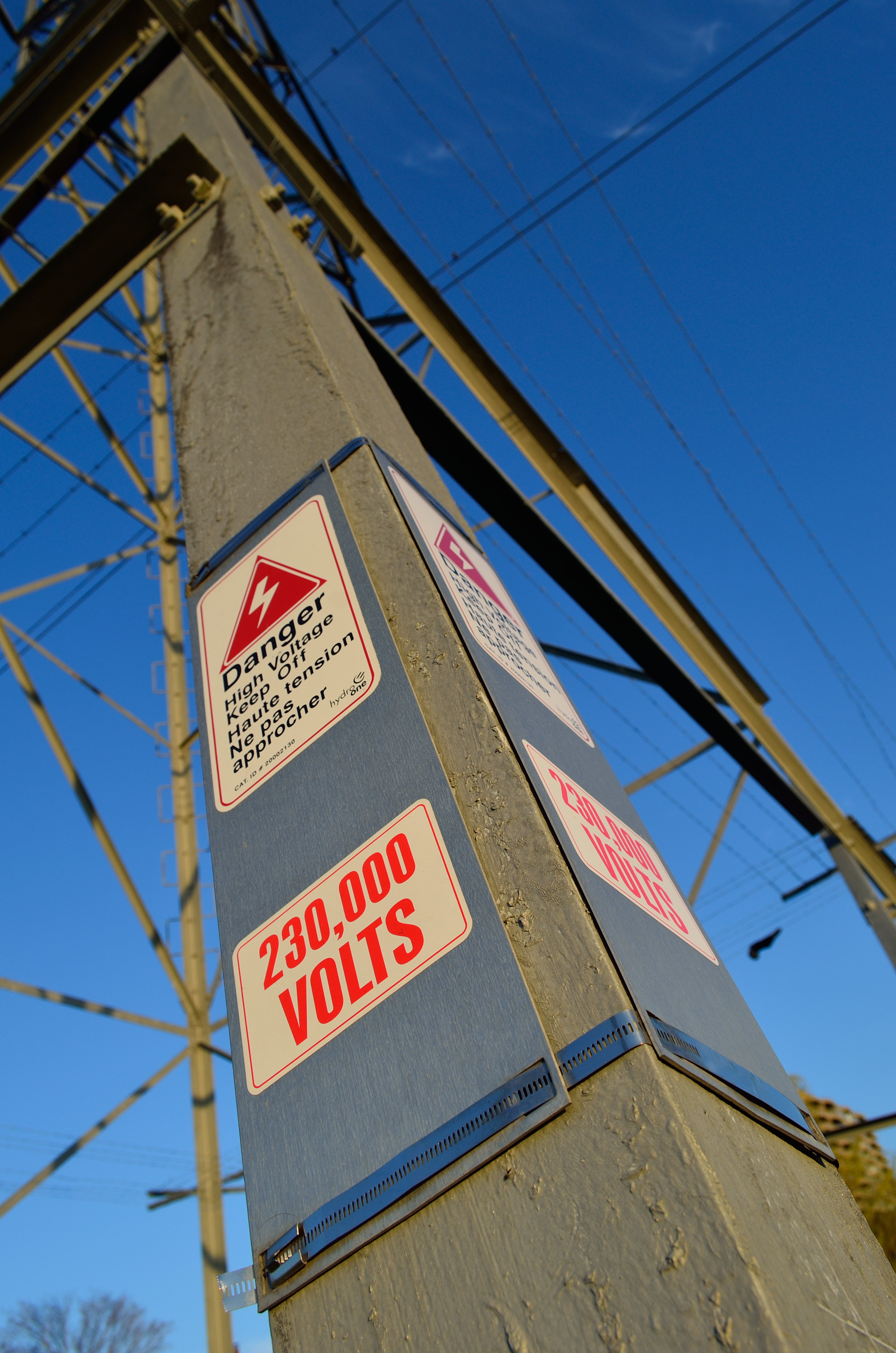 Hydro One Power Tower